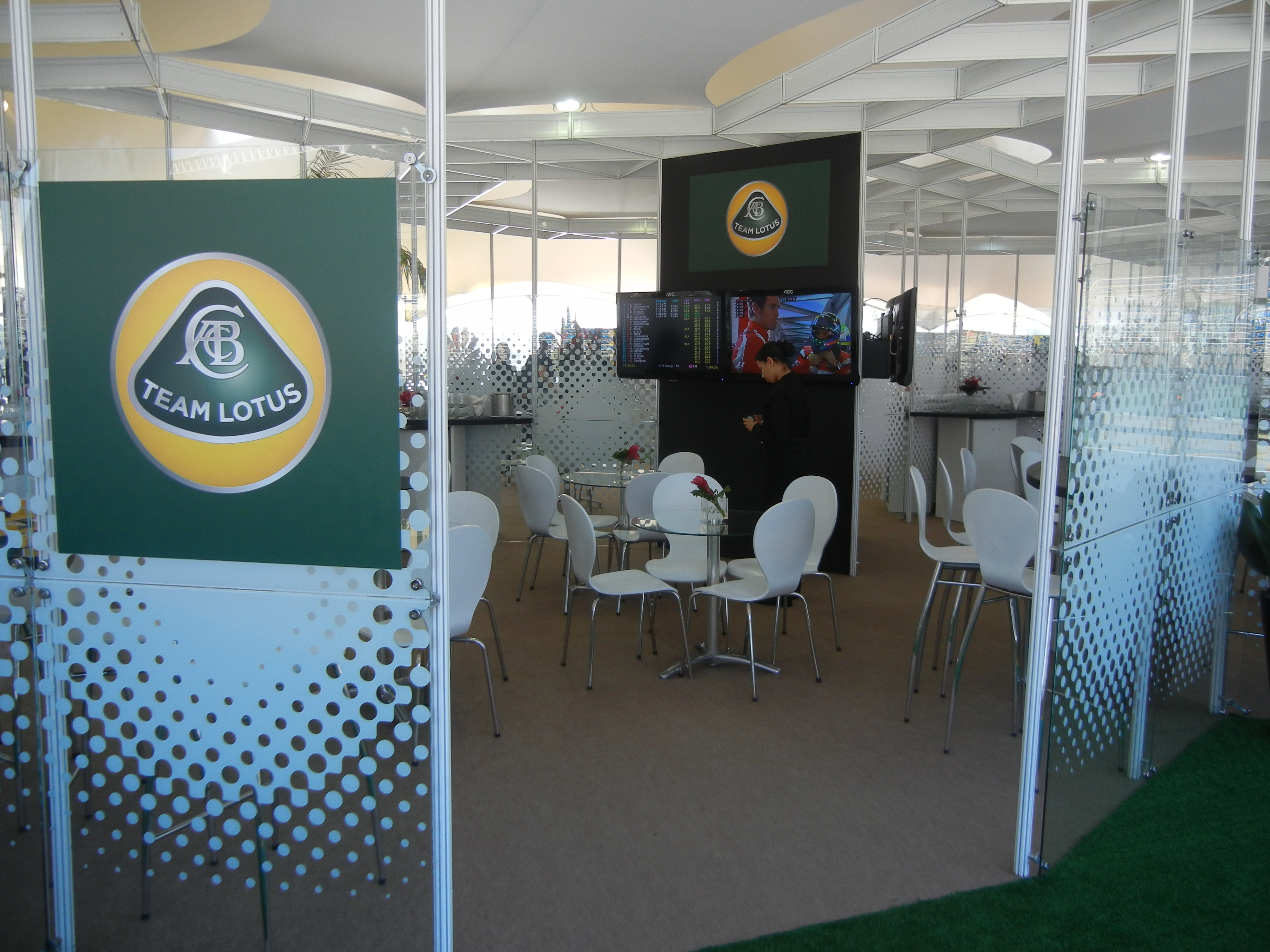 Team Lotus logos